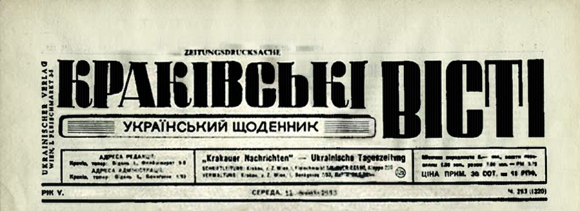 Frontispiece of Krakivs'ki Visti,[1] a vehemently antisemitic, Nazi propaganda daily,[2] published during World War II in the Ukrainian language with the German financial aid, and with exposure orchestrated by Joseph Goebbels himself.[3]